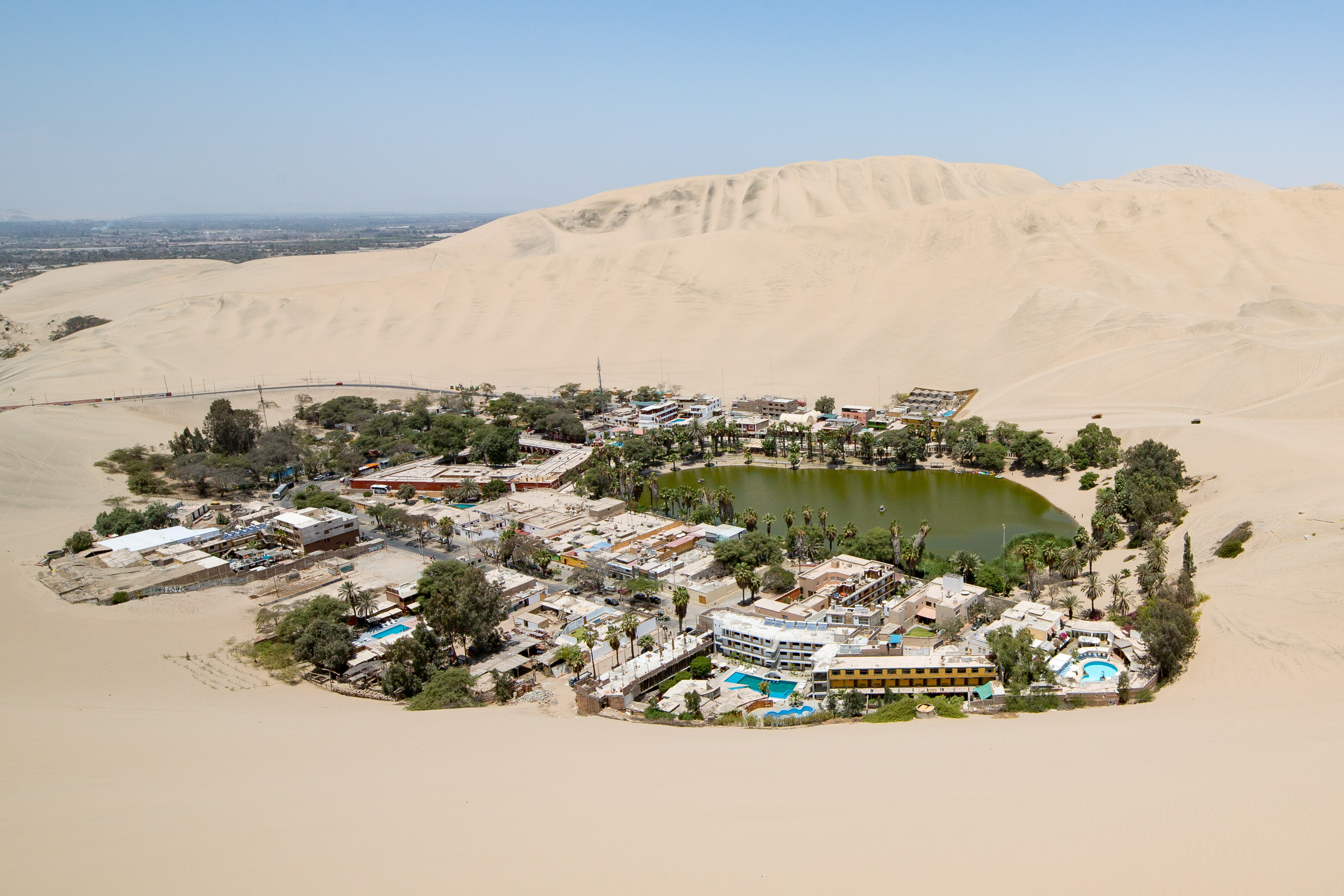 Overview of Huacachina, Peru, seen from the top of a nearby sand dune